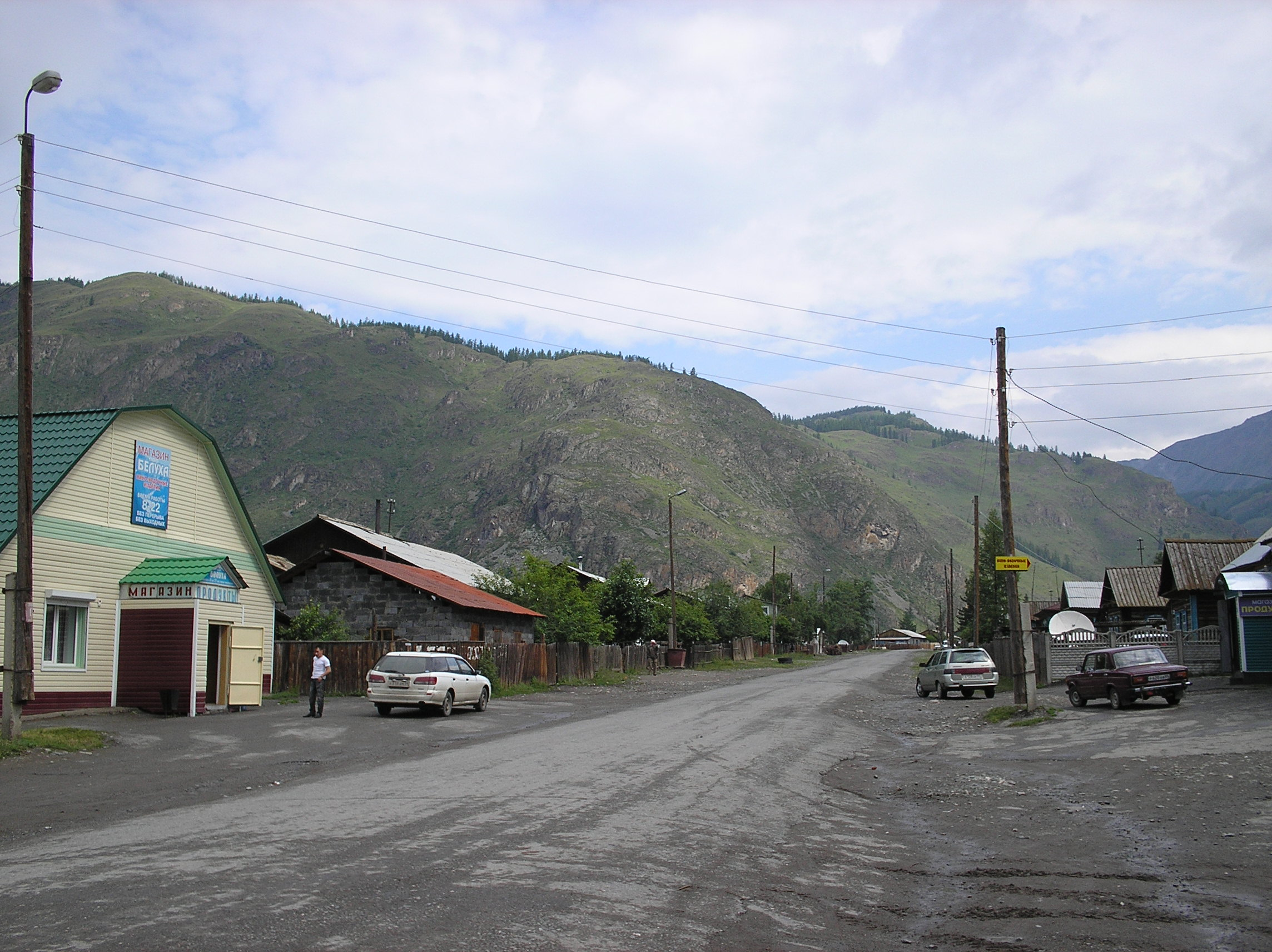 Aktash settlement in Ulagansky District of the Altai Republic